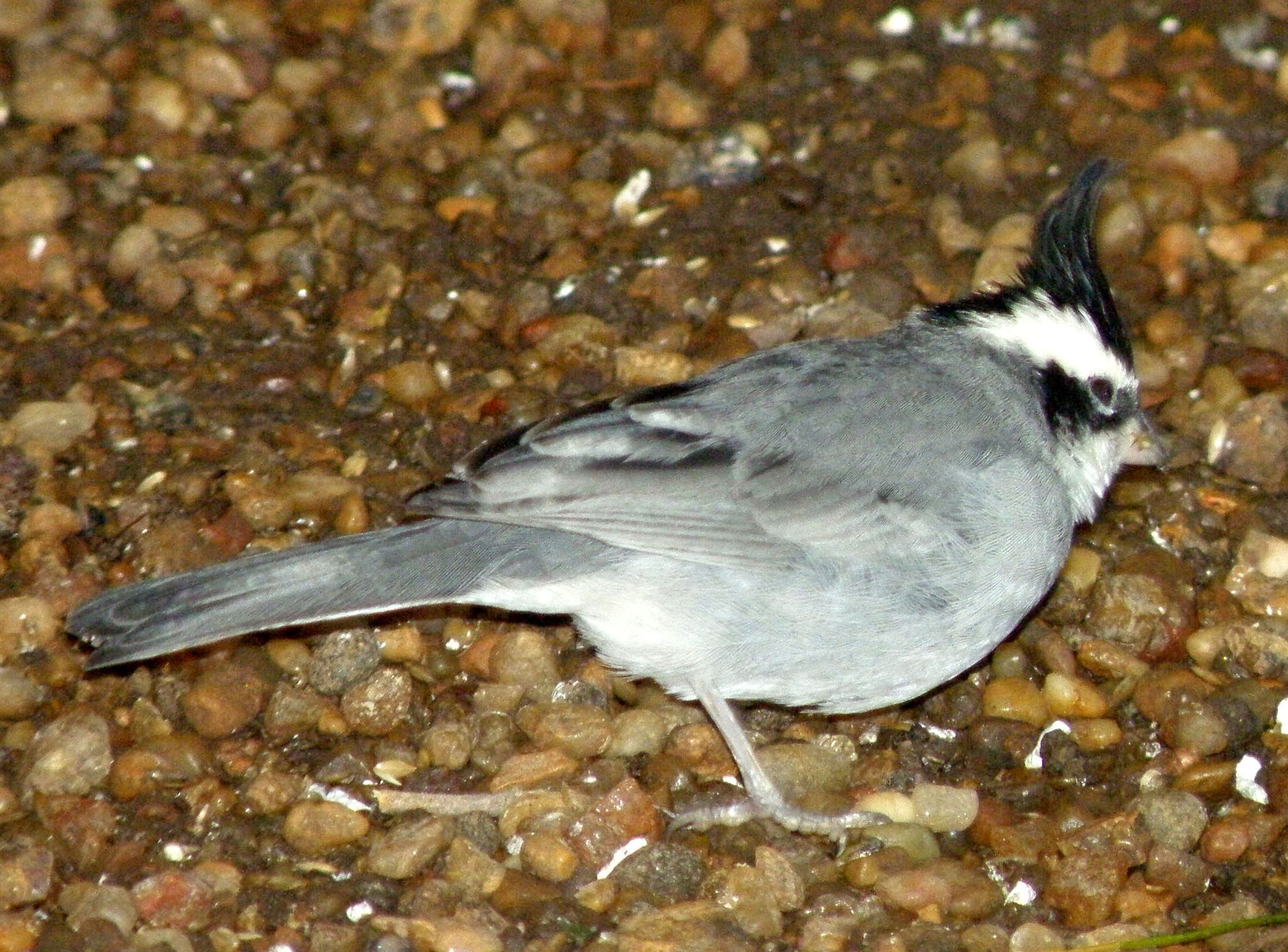 Black-crested Finch (Lophospingus pusillus).